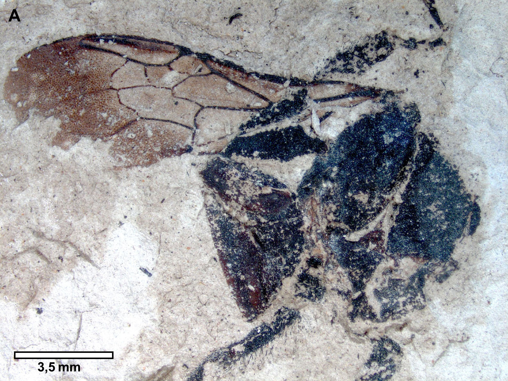 Figure 4. Bombus cerdanyensis sp. nov. A. General habitus.